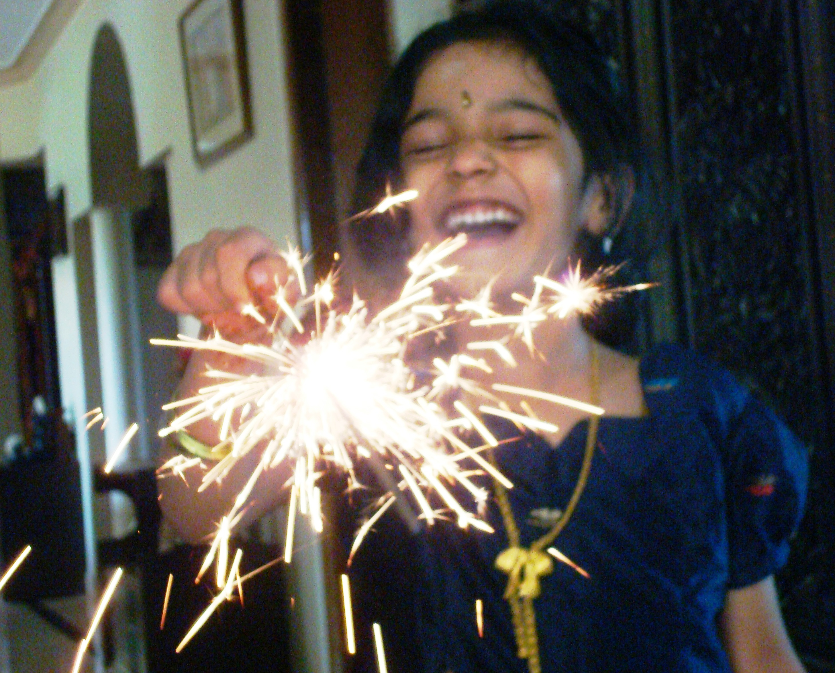 DEEPAVALI CELEBRATIONS ARE ON - LET THIS DIWALI, USHERS IN LOVE AND LAUGHTER, BRIGHTNESS AND PROSPERITY IN EVERY HOME. Lights, Sparkles and Laughter everywhere. Sparklers, locally called phuljhari, are popular with kids. Divali, dipavali, India